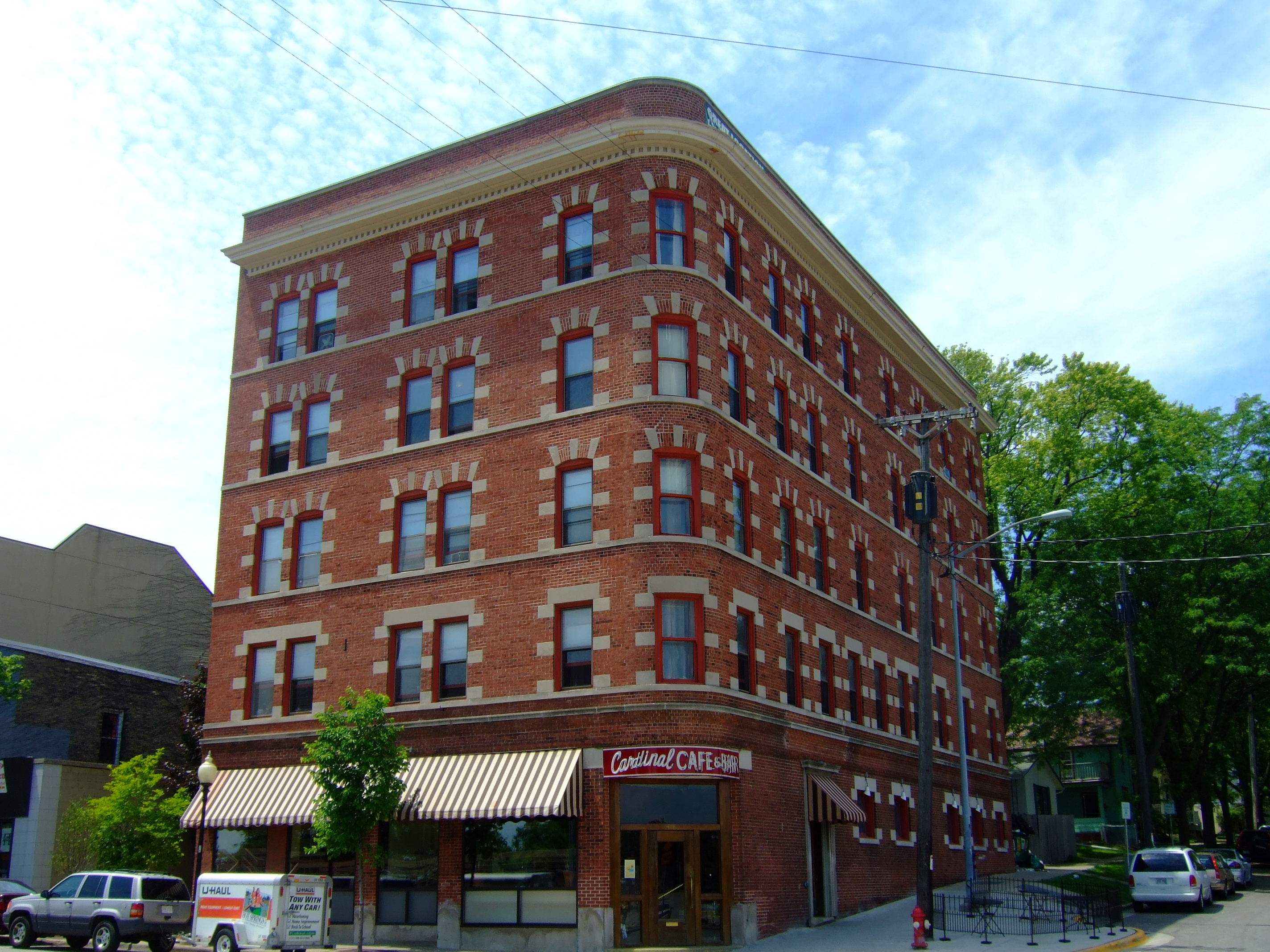 The Cardinal Hotel (ca. 1908; 4th and 5th floors added the following year) in Madison, Wisconsin. Block and brick construction designed by Ferdinand Kronenberg. Added to the National Register of Historic Places in 1982.